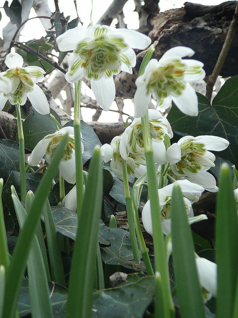 Galanthus nivalis f. pleniflorus 4 Looking up into the stunningly-detailed double flowers.